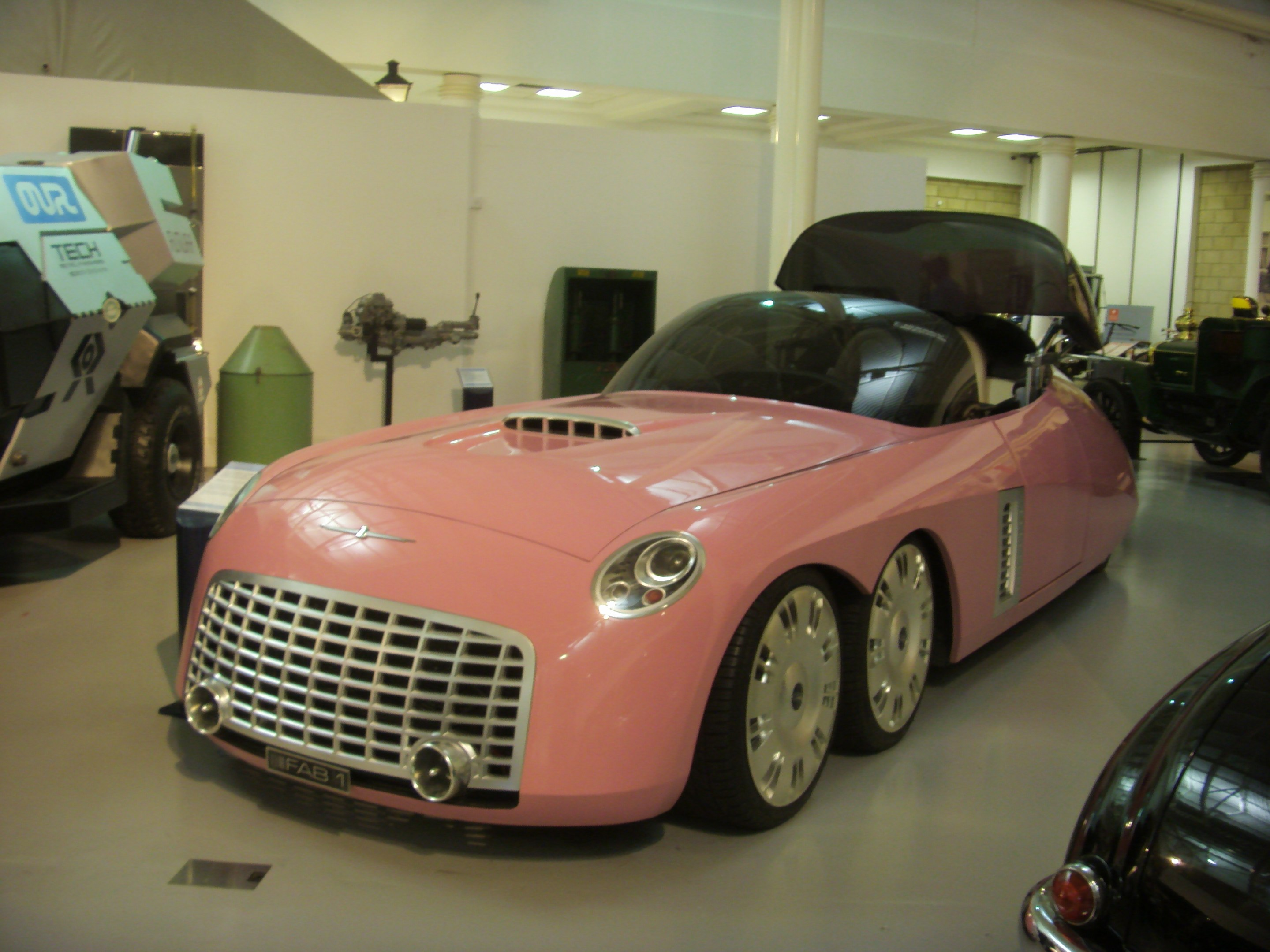 From the Thunderbirds movie...